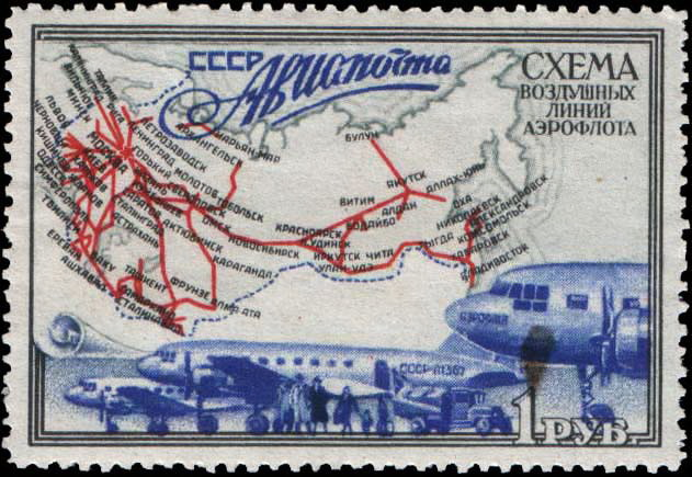 Stamp of the USSR. The scheme of air-lines of "Aeroflot", 1949